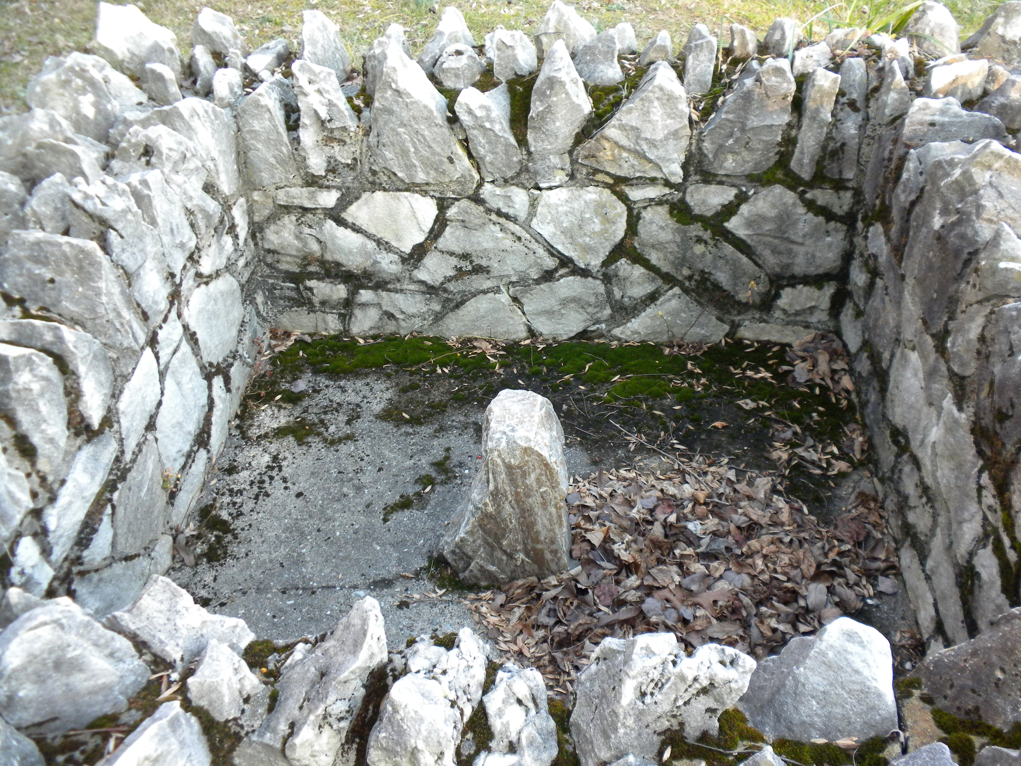 Stargazers' Stone. On John Harlan or Stargazers' Farm, on the NRHP. Near Stargazers' Road and PA 162 near Embreeville, PA. Mason and Dixon used this as a base point while plotting the Mason-Dixon line. Name comes from the astronomical observations they made there. This photo is my own work and I donate it to the public domain.